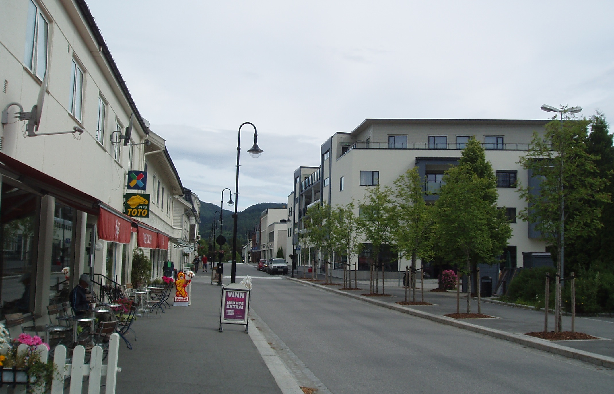 The village of Nesbakken in Jevnaker, South Norway